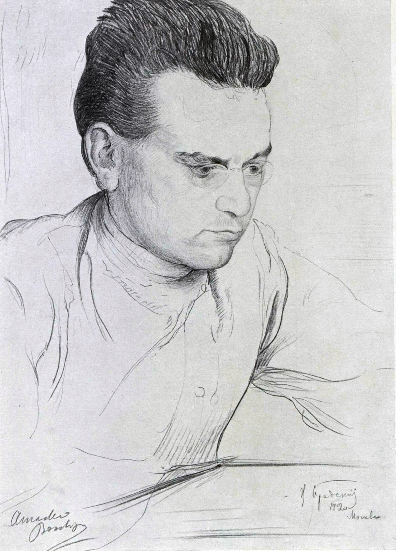 Amadeo Brodia